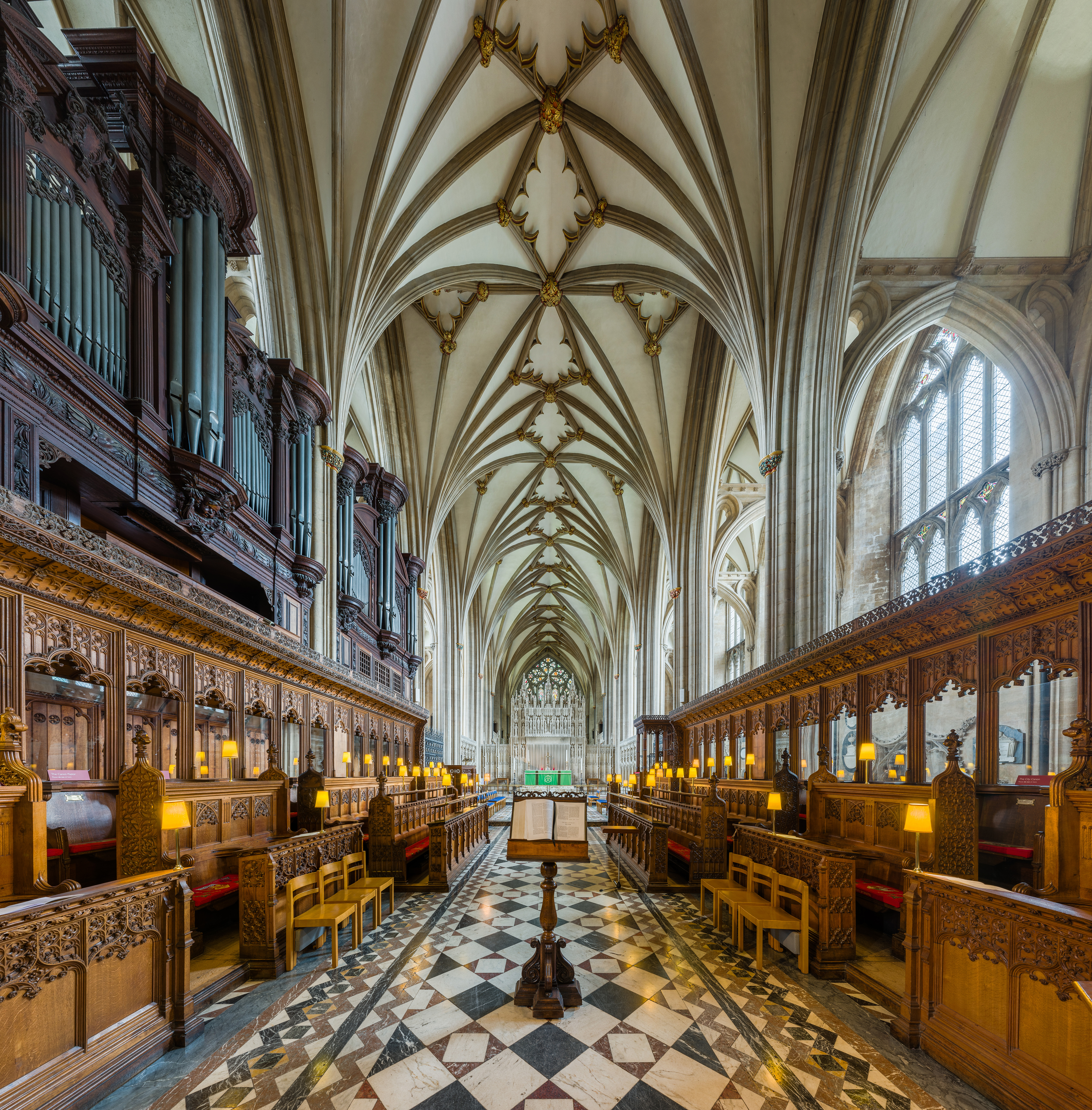 The choir of Bristol Cathedral, looking east.